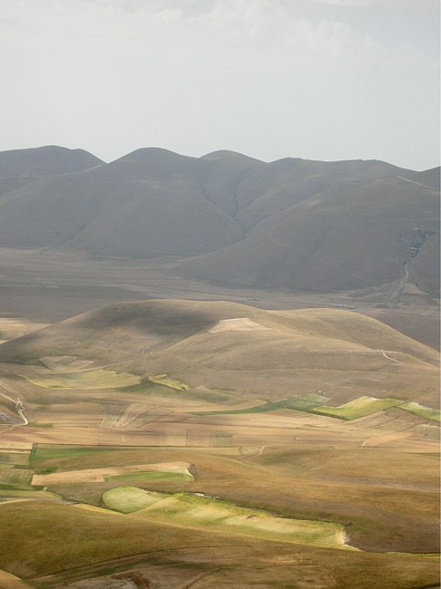 Piano Grande, Umbria picture taken by user Idéfix July 2005